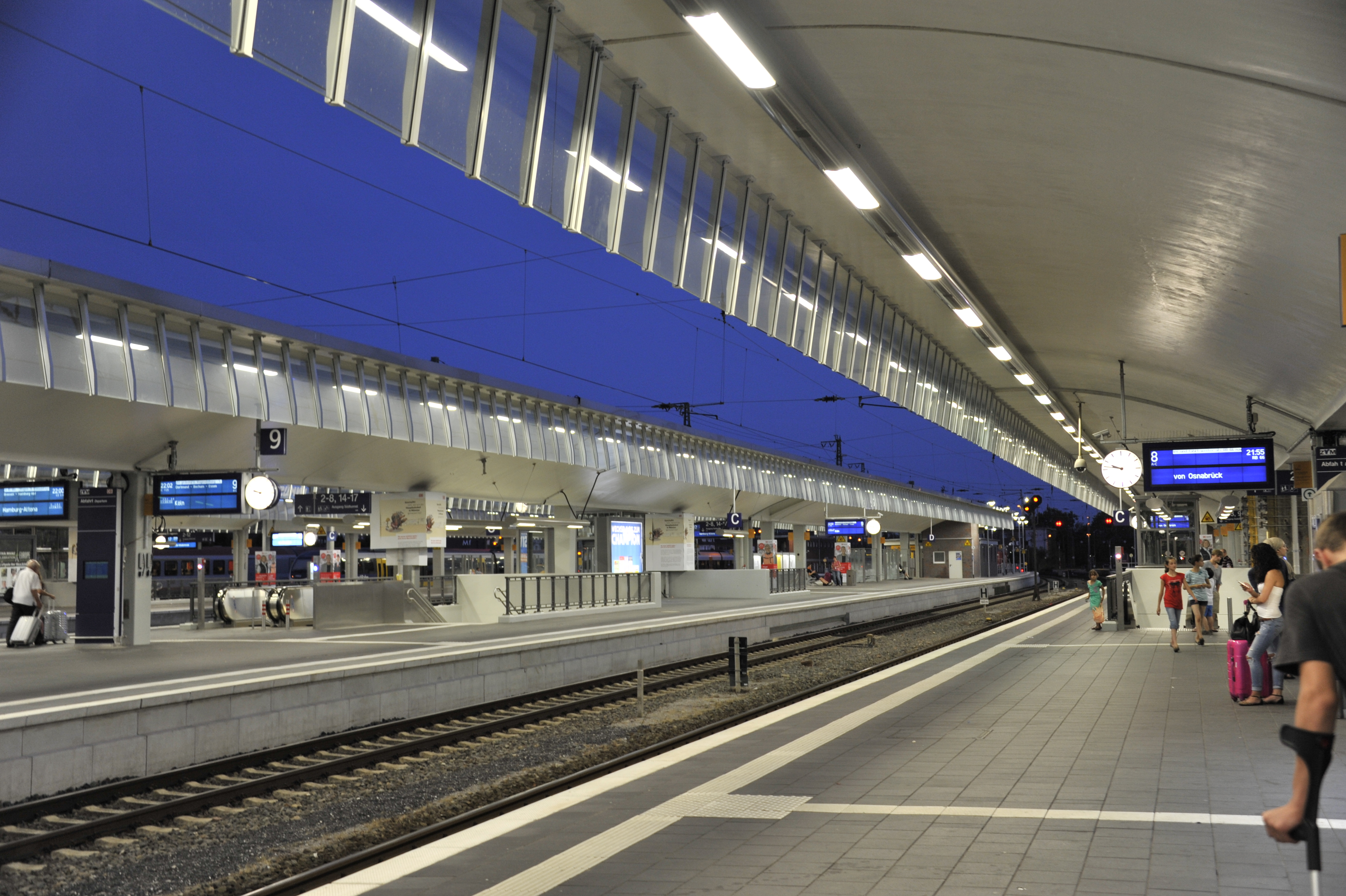 Münster Hauptbahnhof at night